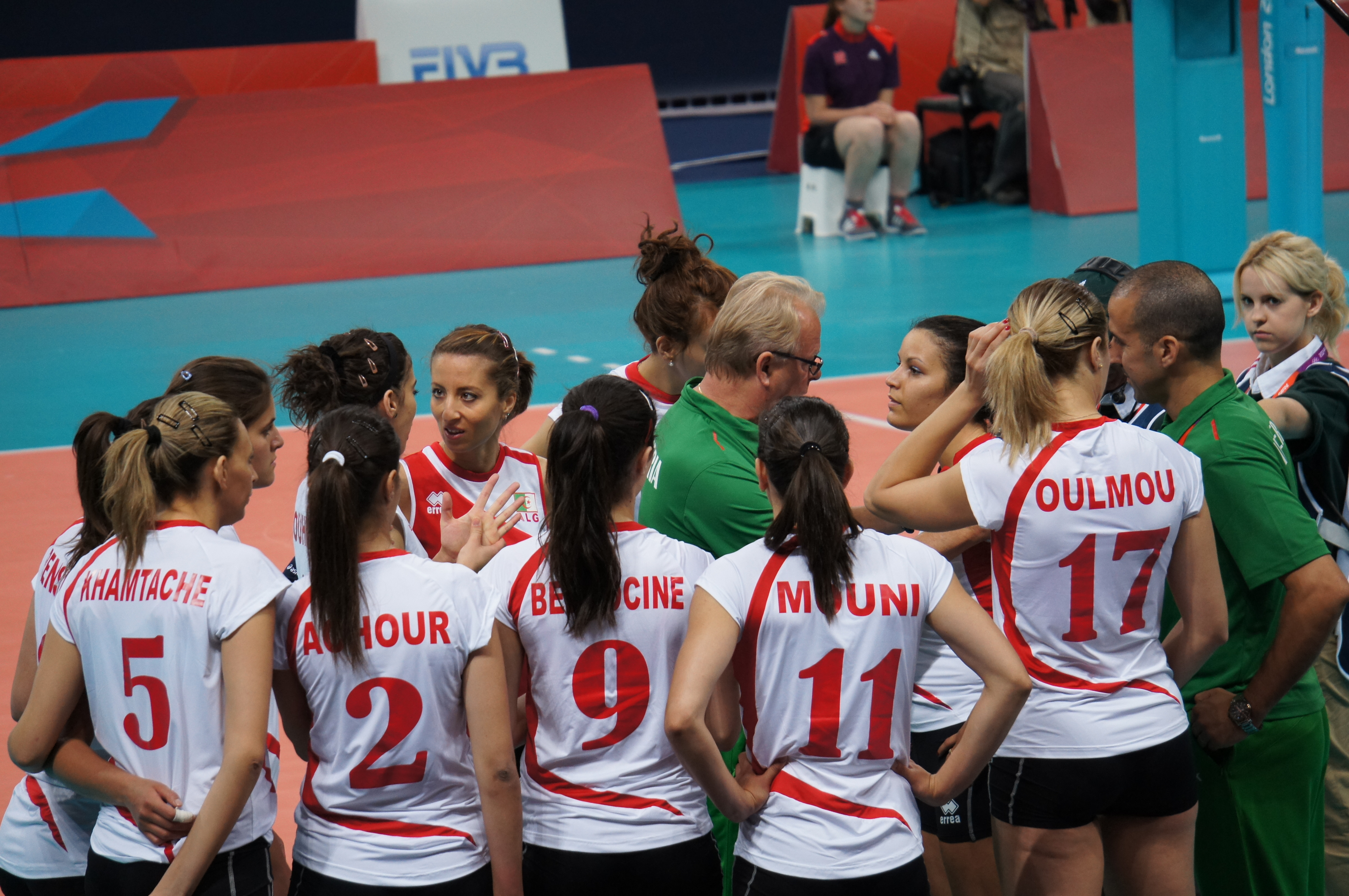 Algeria women's national volleyball team at the 2012 Summer Olympics